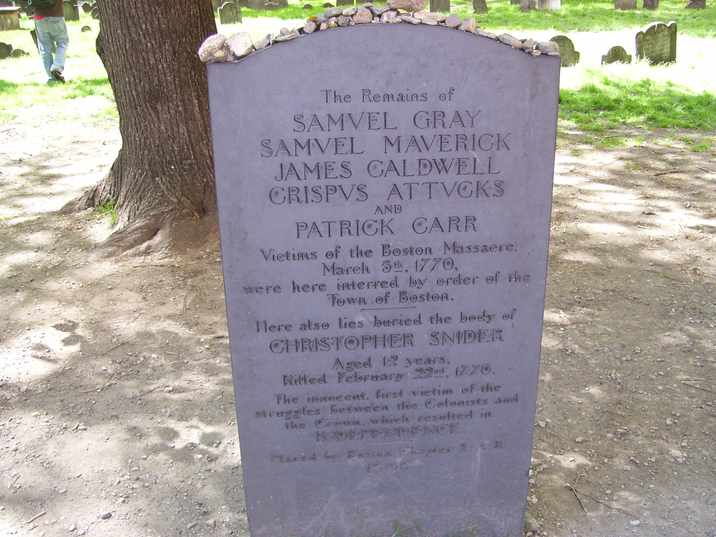 My photo of the Boston Massacre victims grave including Crispus Attucks in Boston Massachusetts' Granary Burying Ground.